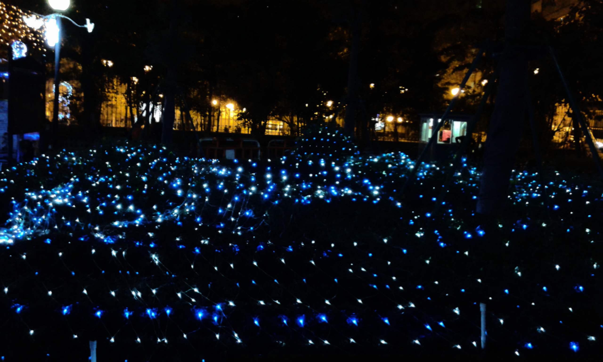 This photo has been taken in the country: China